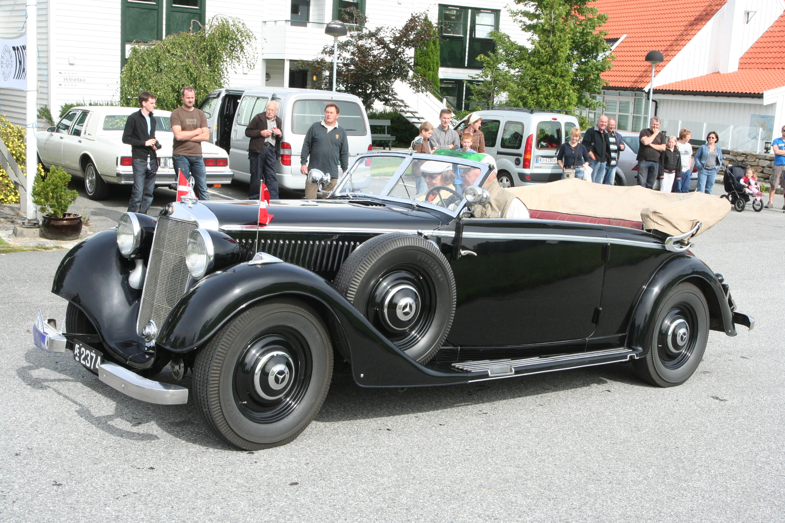 Captured at a Veteran-Car meeting on August 1, 2009 in Utstein, Norway. Hanne & Lauritz were the owners at the time.